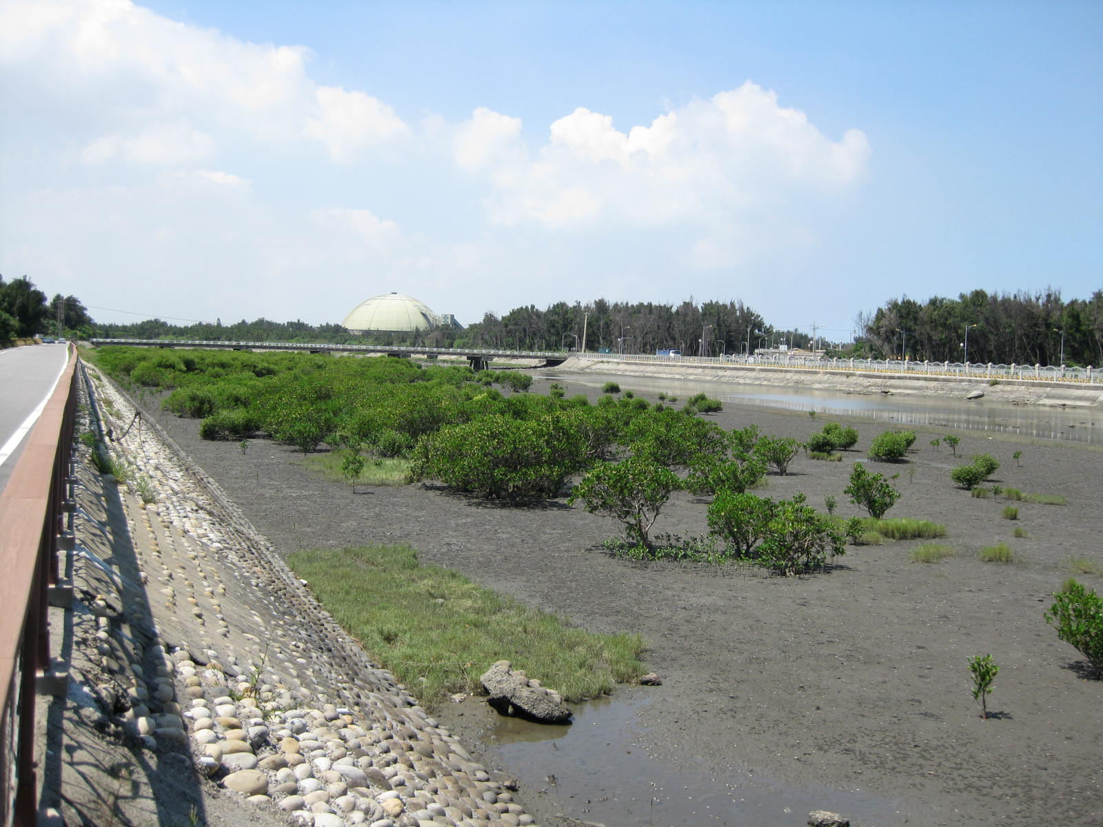 Photo of some mangroves in Gaomei,Taichung.